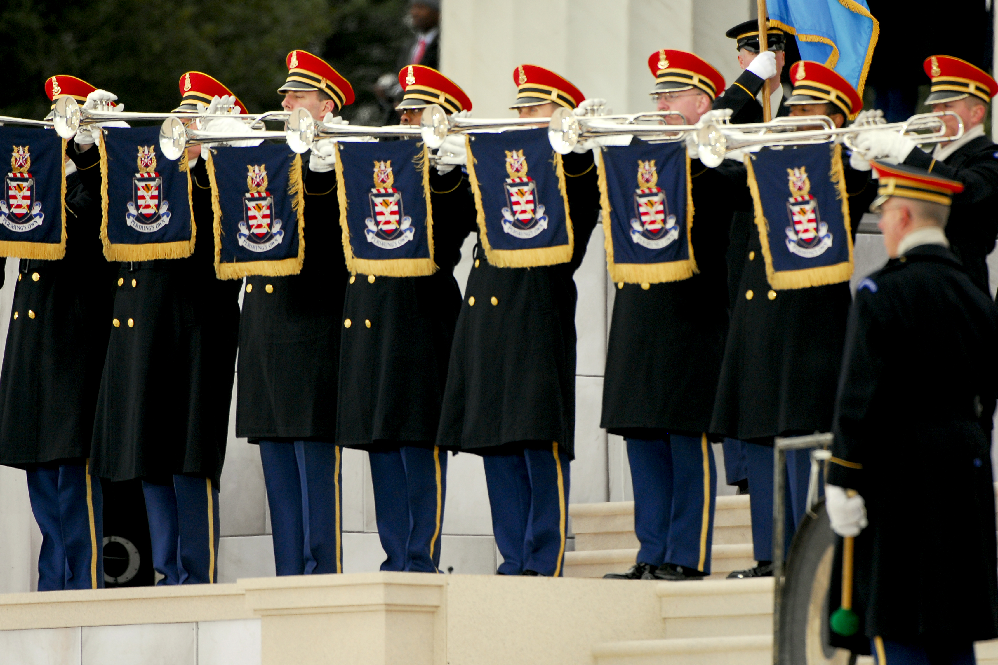 The U.S. Army Herald Trumpets perform during the inaugural opening ceremonies at the Lincoln Memorial on the National Mall in Washington, D.C., Jan. 18, 2009.